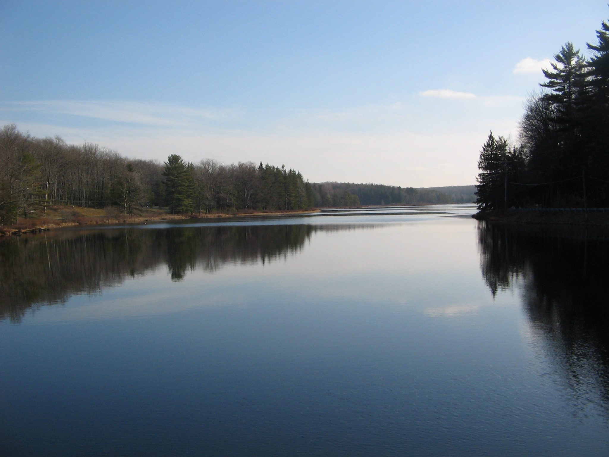 Black Moshannon Lake from the PA Route 504 bridge at Black Moshannon State Park, near Phillipsburg, Rush Township, Centre County, Pennsylvania, USA.